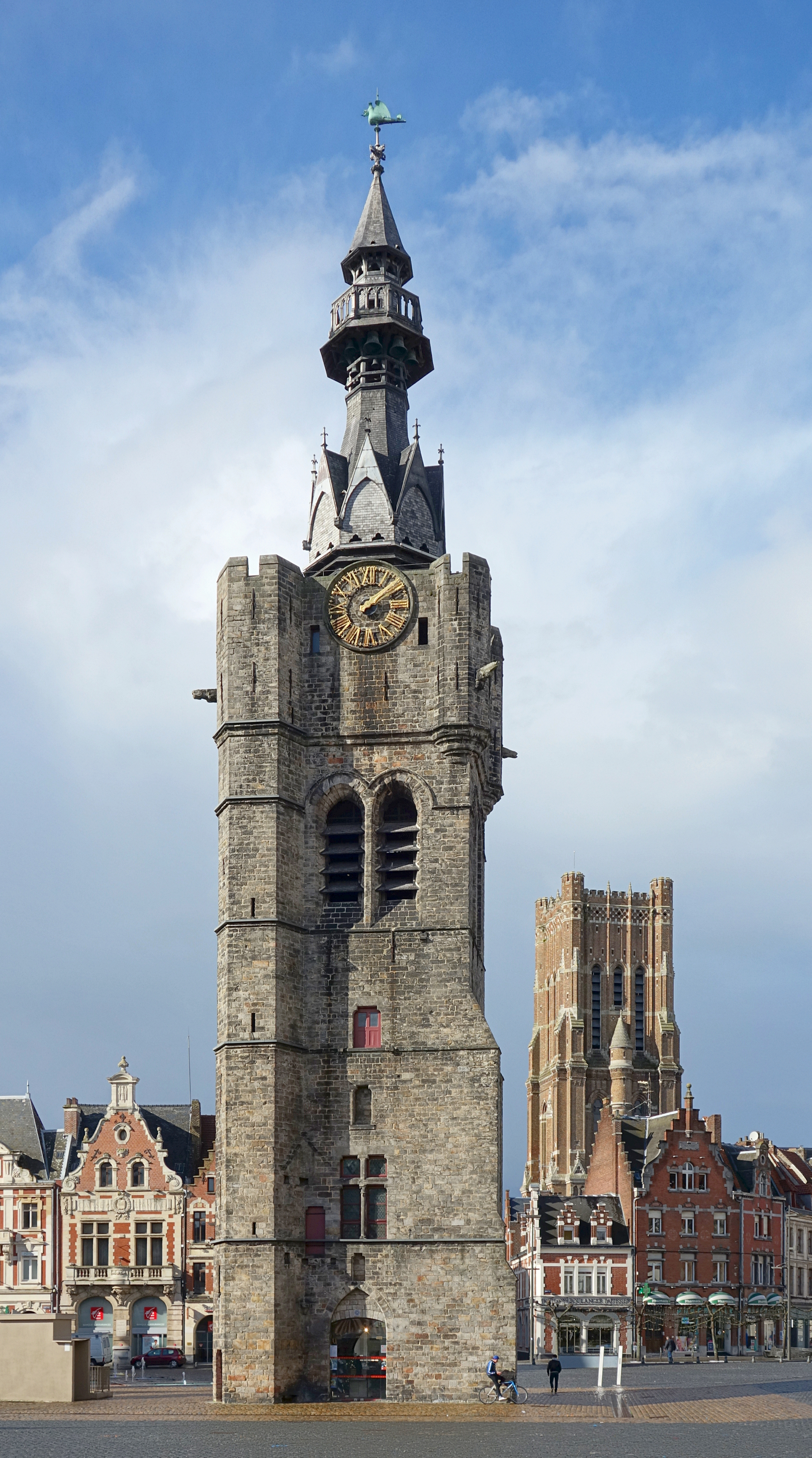 Belfry of Béthune, France.